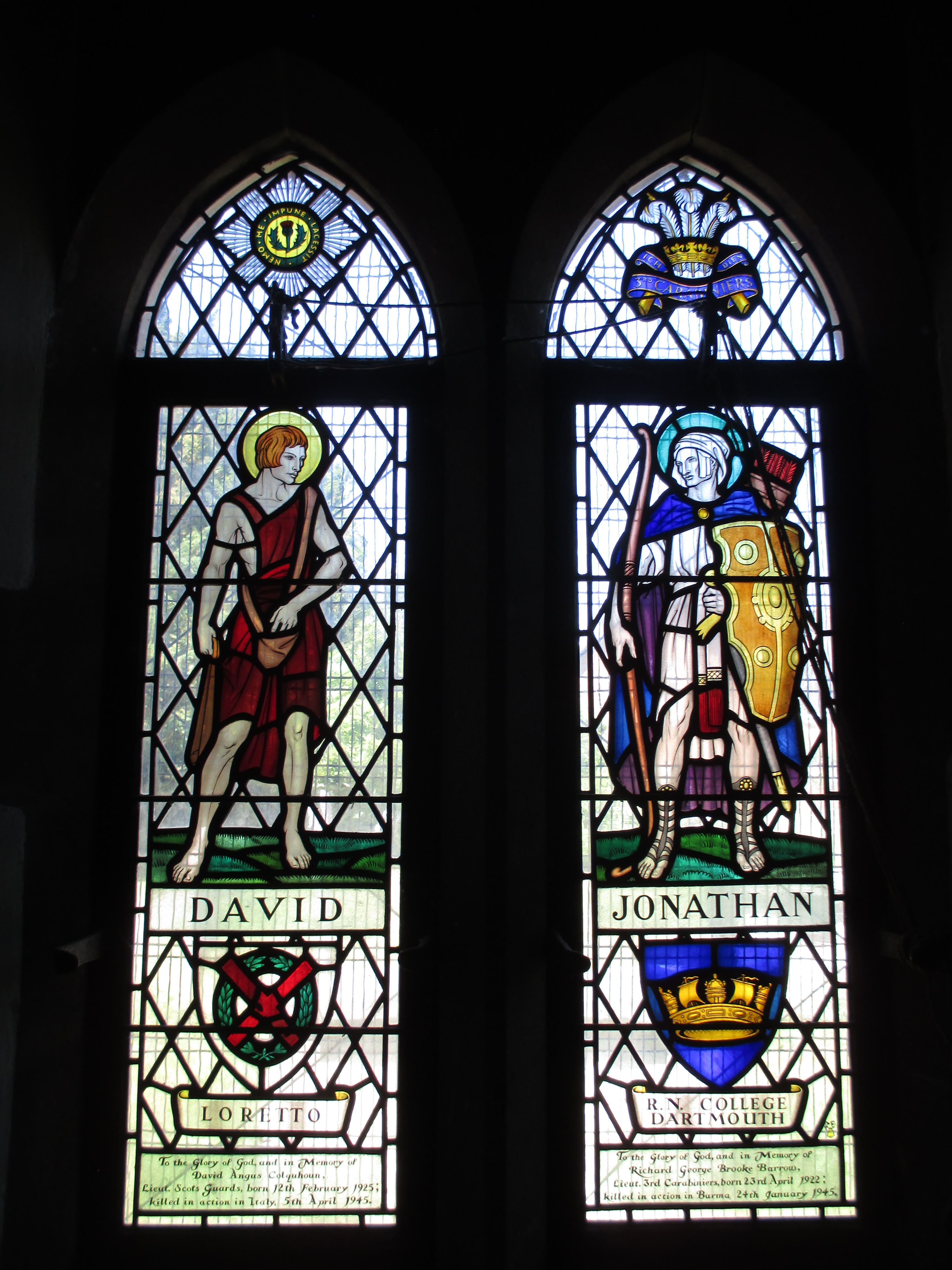 Second window, north aisle, St Mary's Church, Fittleworth, West Sussex. It was made by Michael Farrar-Bell in 1951.